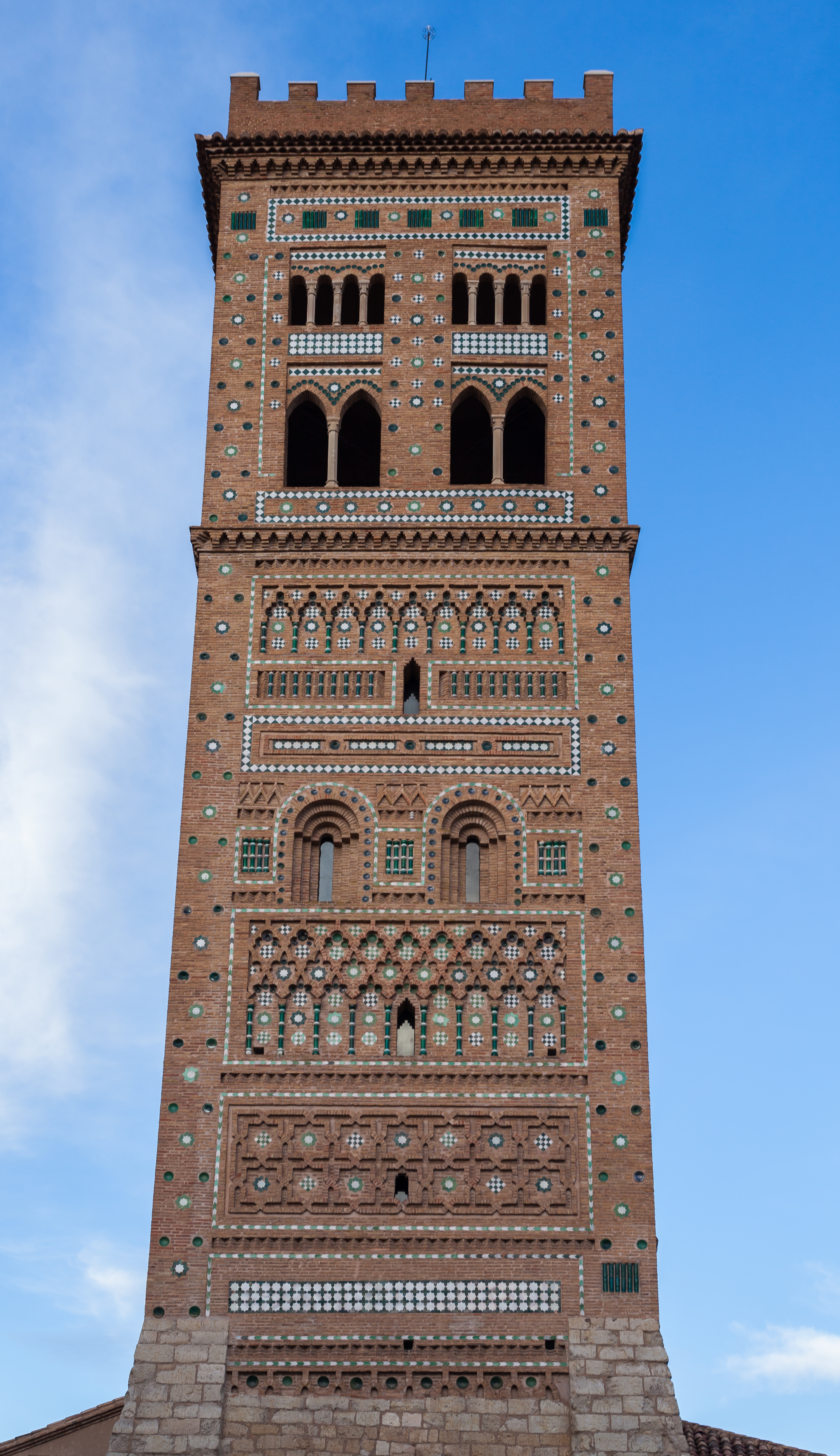 Church of San Martín, Teruel, Spain